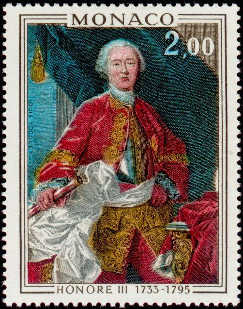 Stamp of Honoré III of Monaco